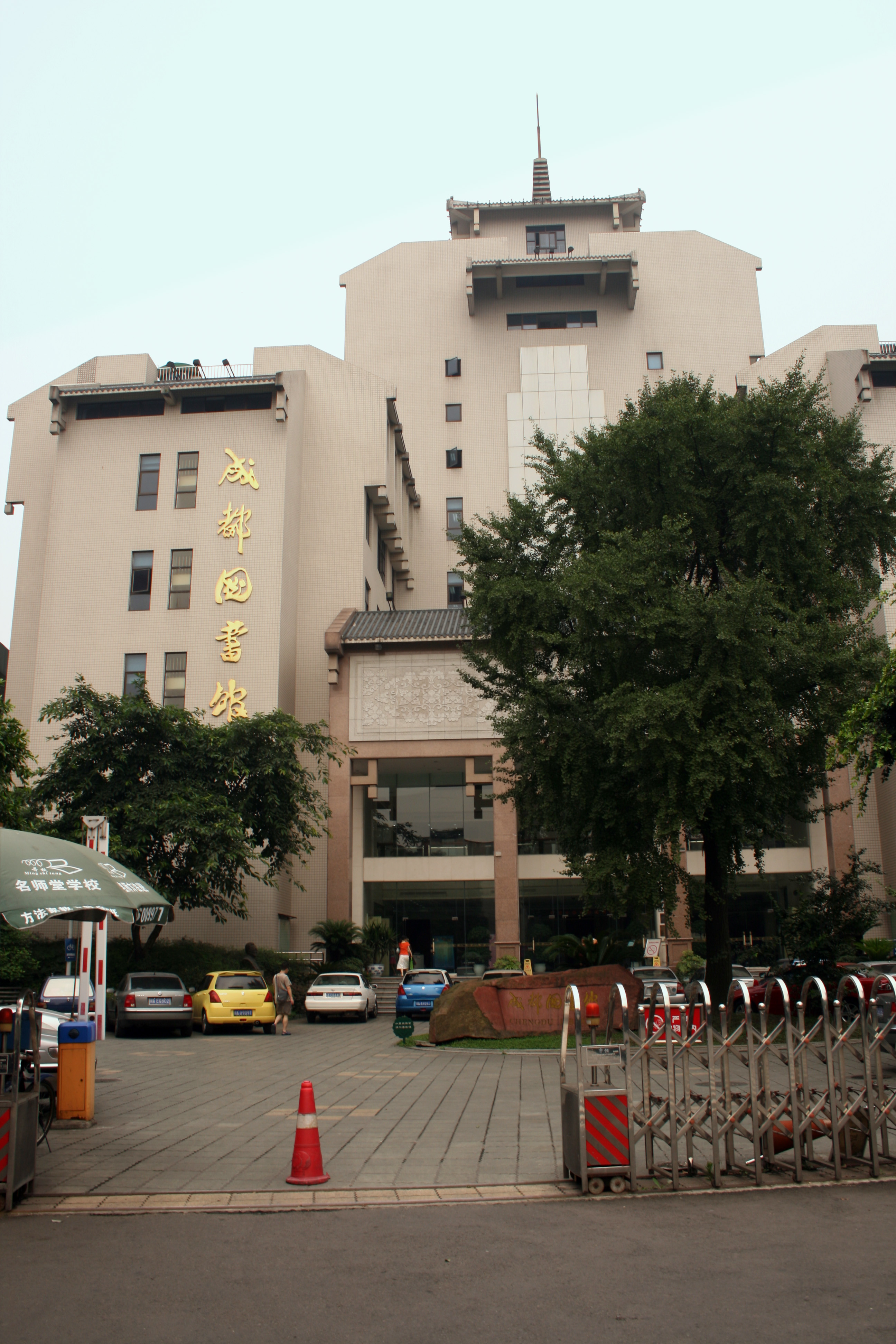 Chengdu Library